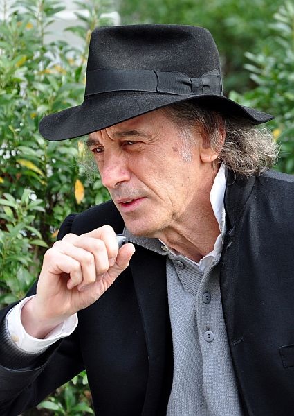 Cinematographer Edward Lachman attends press interviews at the 19th Annual Hamptons International Film Festival on October 16, 2011 at the Maidstone Hotel in East Hampton, New York. (Photo © Nick Stepowyj)